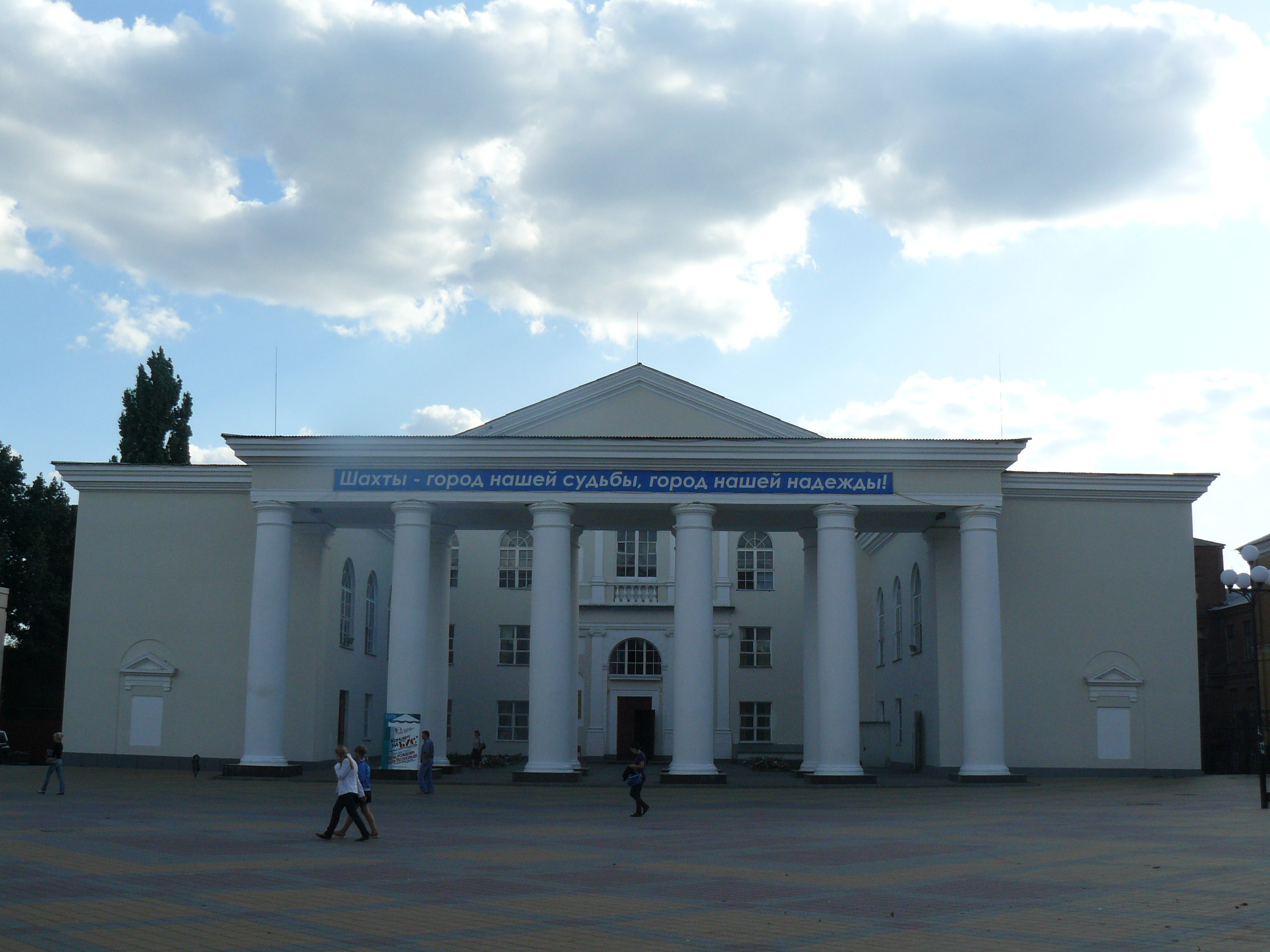 Drama Theatre in Shakhty